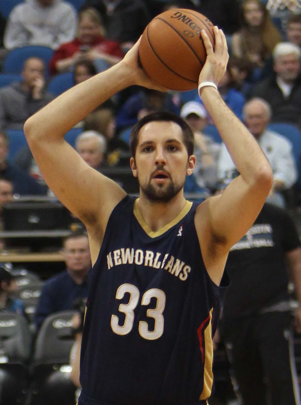 Ryan Anderson (basketball) at the Target Center